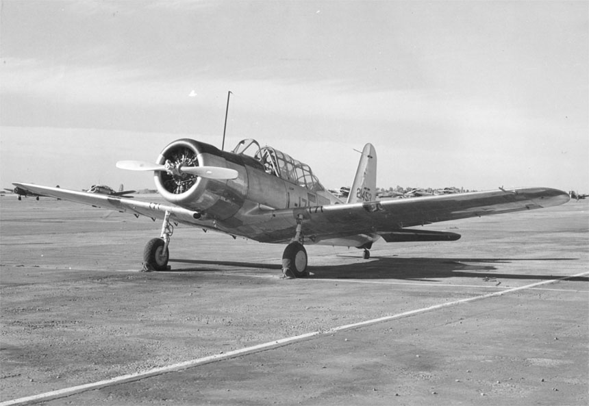 A U.S. Army Air Forces Vultee BT-13A (s/n 42-1453) on the runway at Minter Field, California (USA), on 1 March 1943.